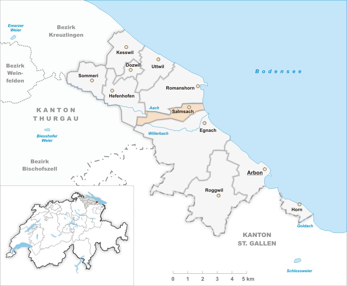 Municipality Salmsach